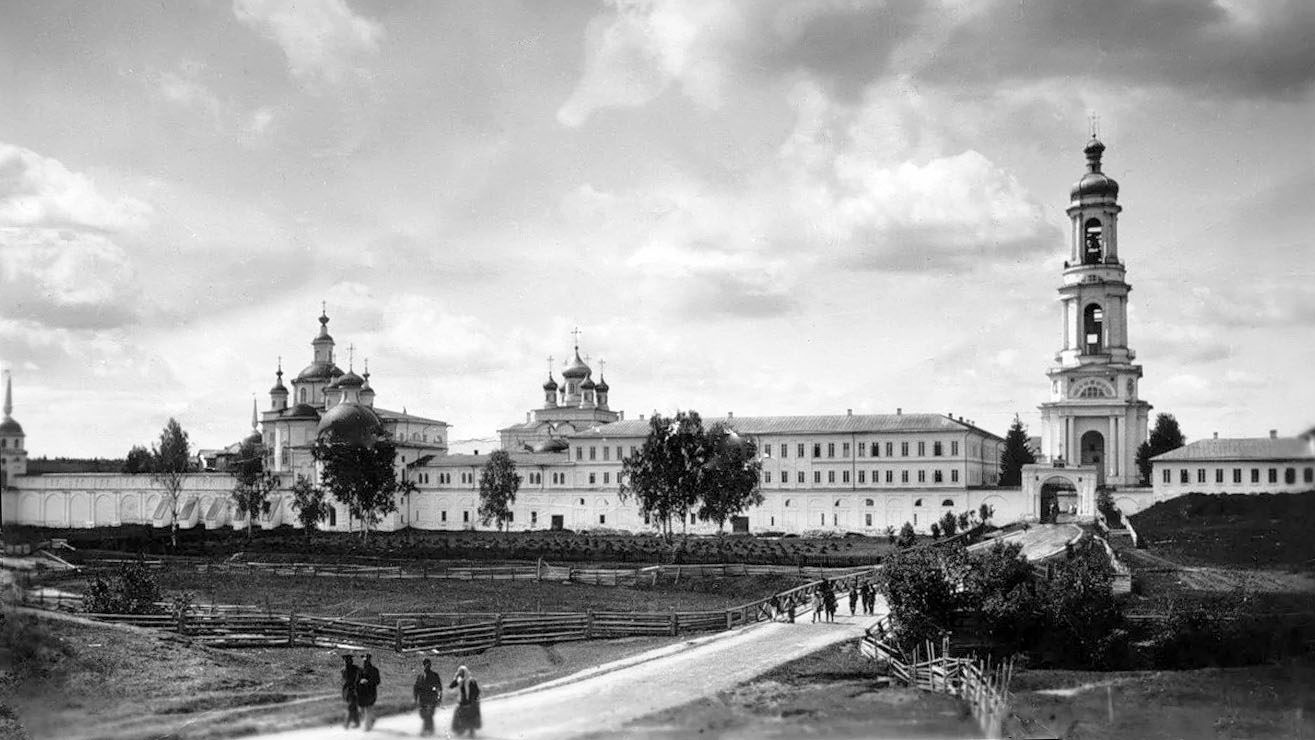 Spaso-Sumorin monastery in the early 20th century